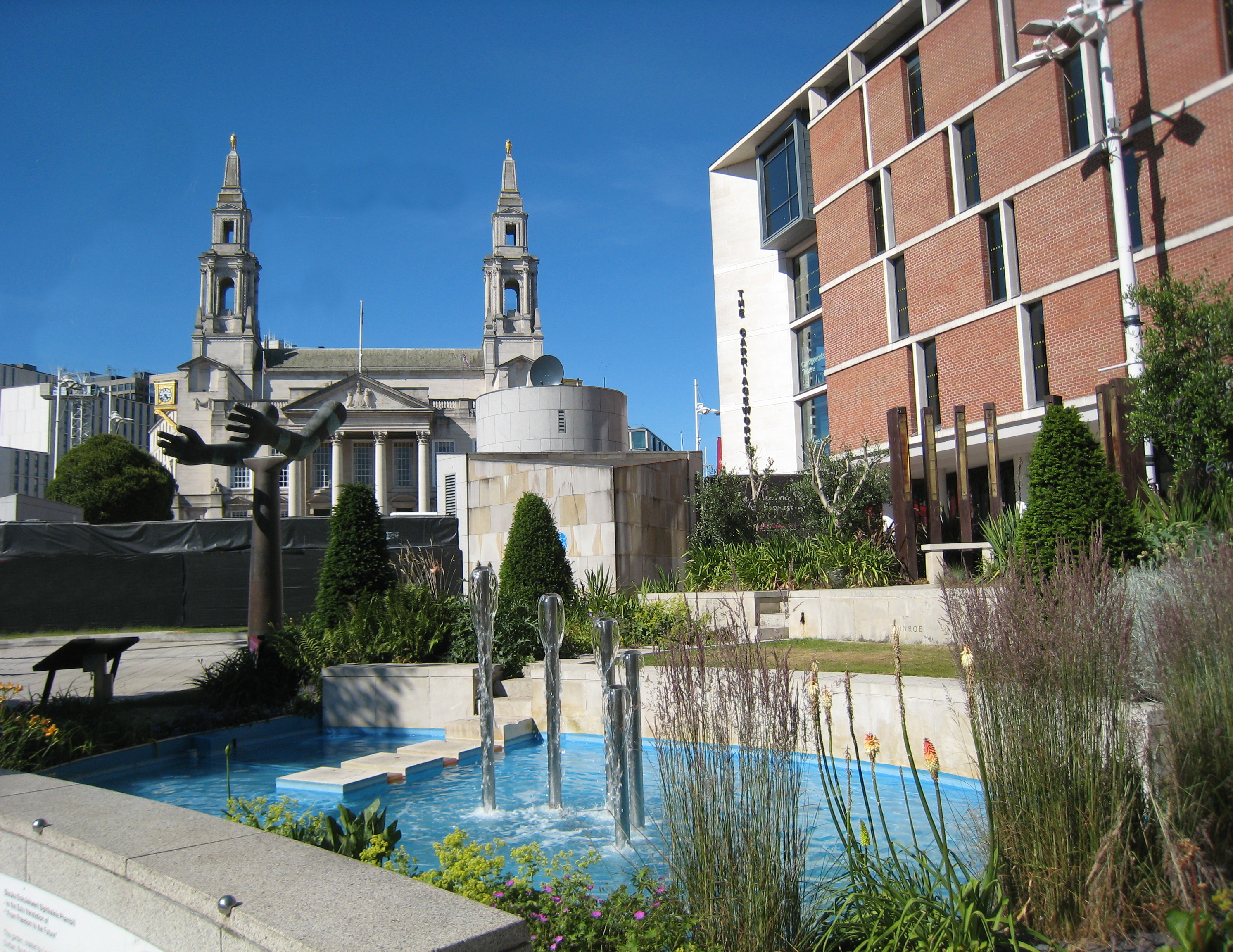 Nelson Mandela Gardens, Millennium Square, Leeds, Showing foreground the water sculpture, mid ground the bronze sculpture "Both Arms", background Leeds Civic Hall, to right the Carriageworks Theatre.